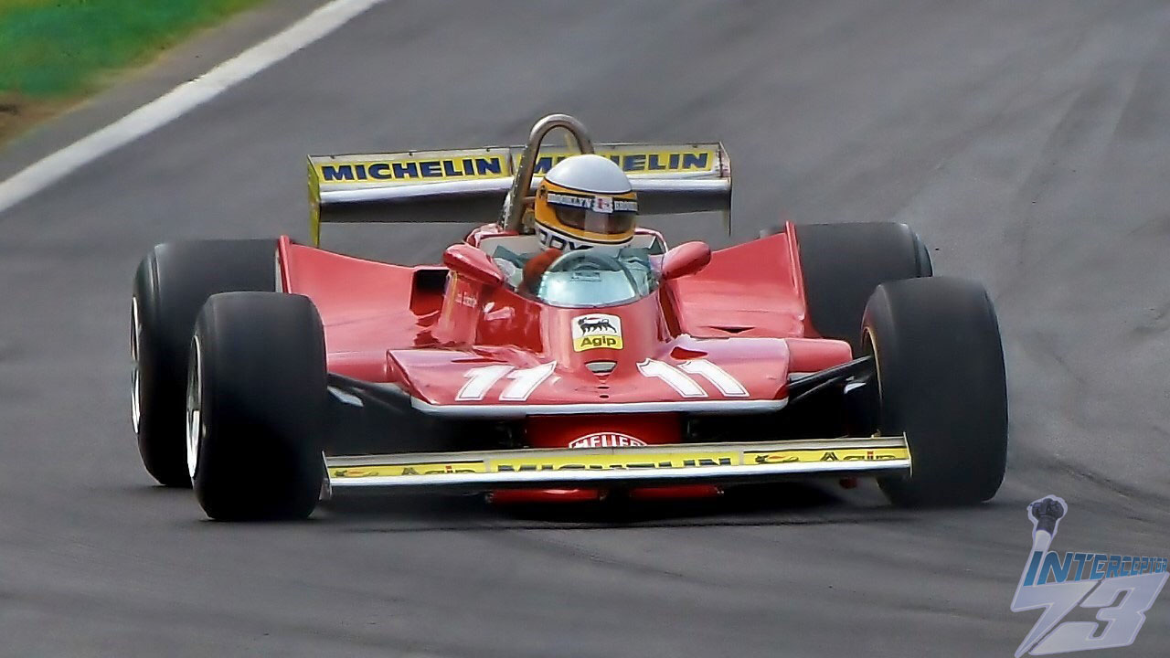 Jody Scheckter, Ferrari 312T4, 2019 Italian Grand Prix, Monza, 7th September